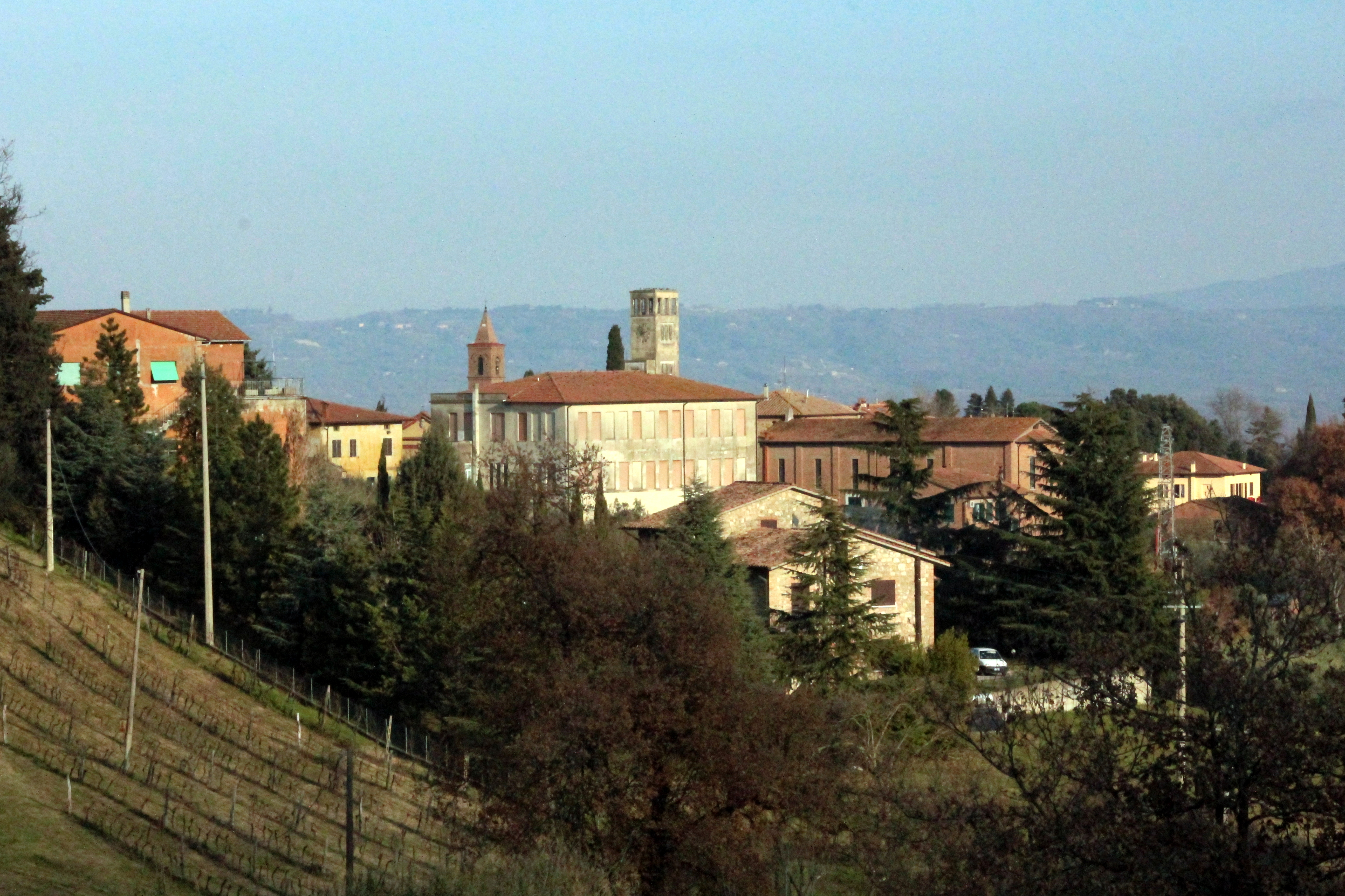 Panorama of Piazze, hamlet of Cetona, Province of Siena, Tuscany, Italy